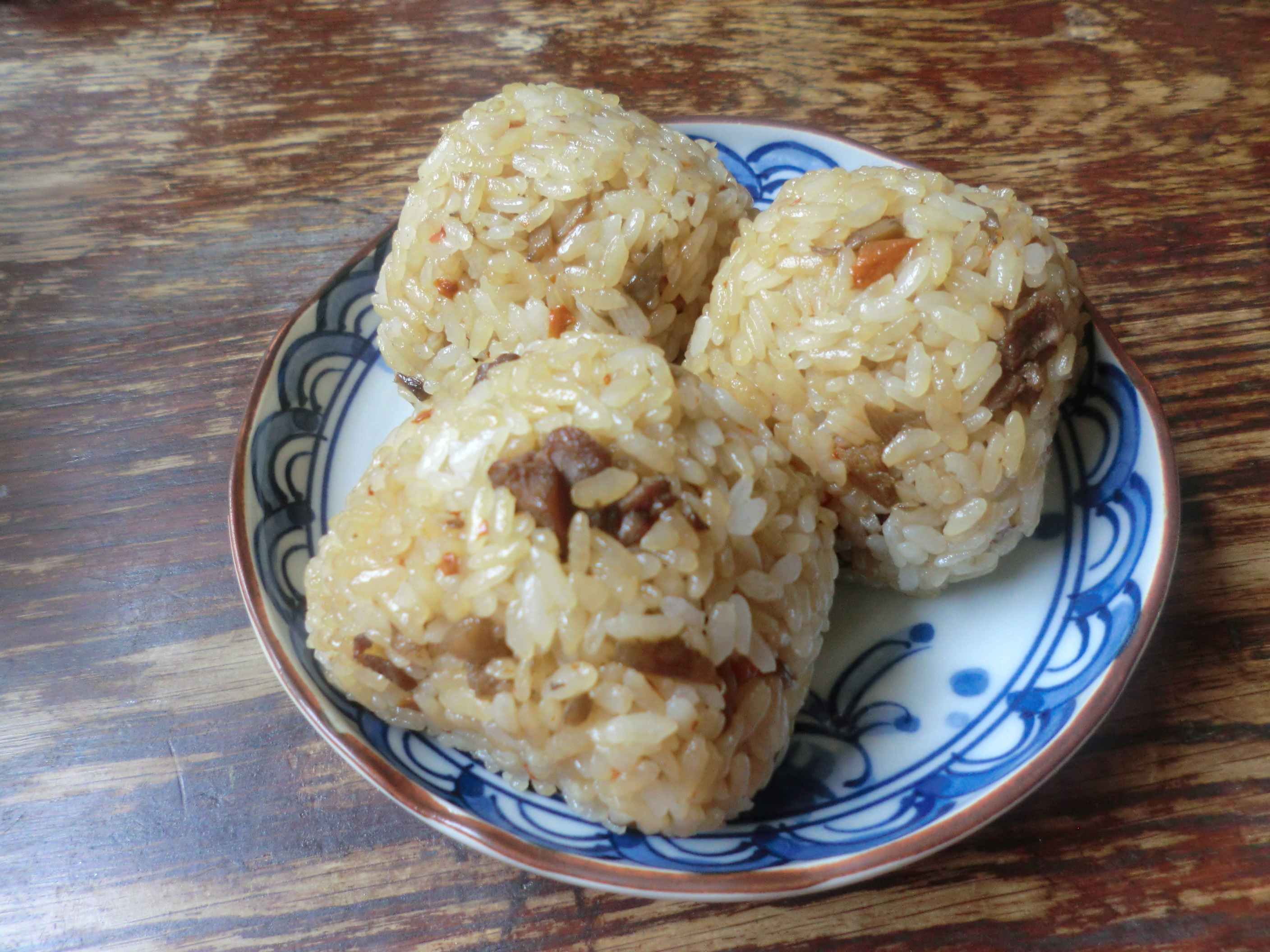 Onigiri of Torimeshi(Japanese chicken rice, it is famous in Oita prefecture).